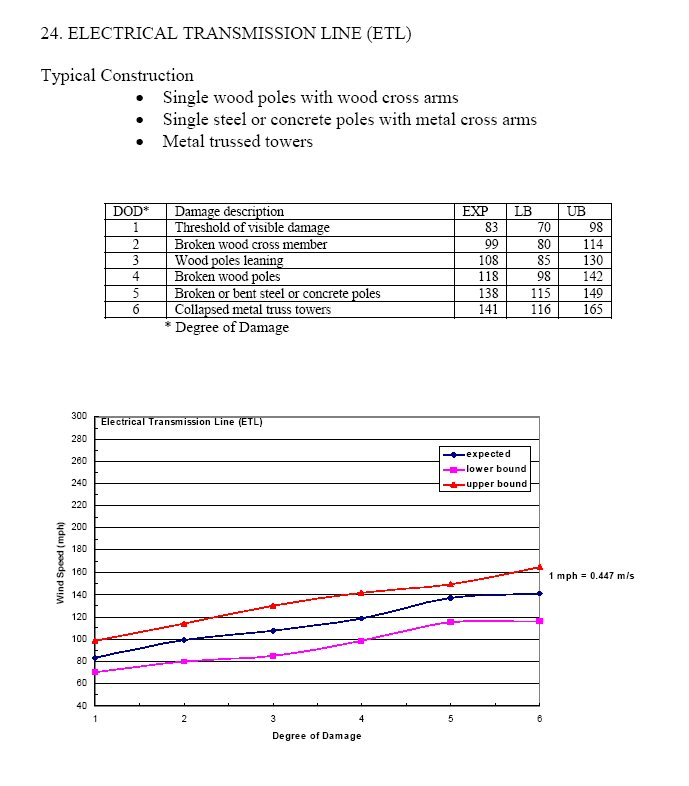 Damage Indicator 24 of the Enhanced Fujita Scale.